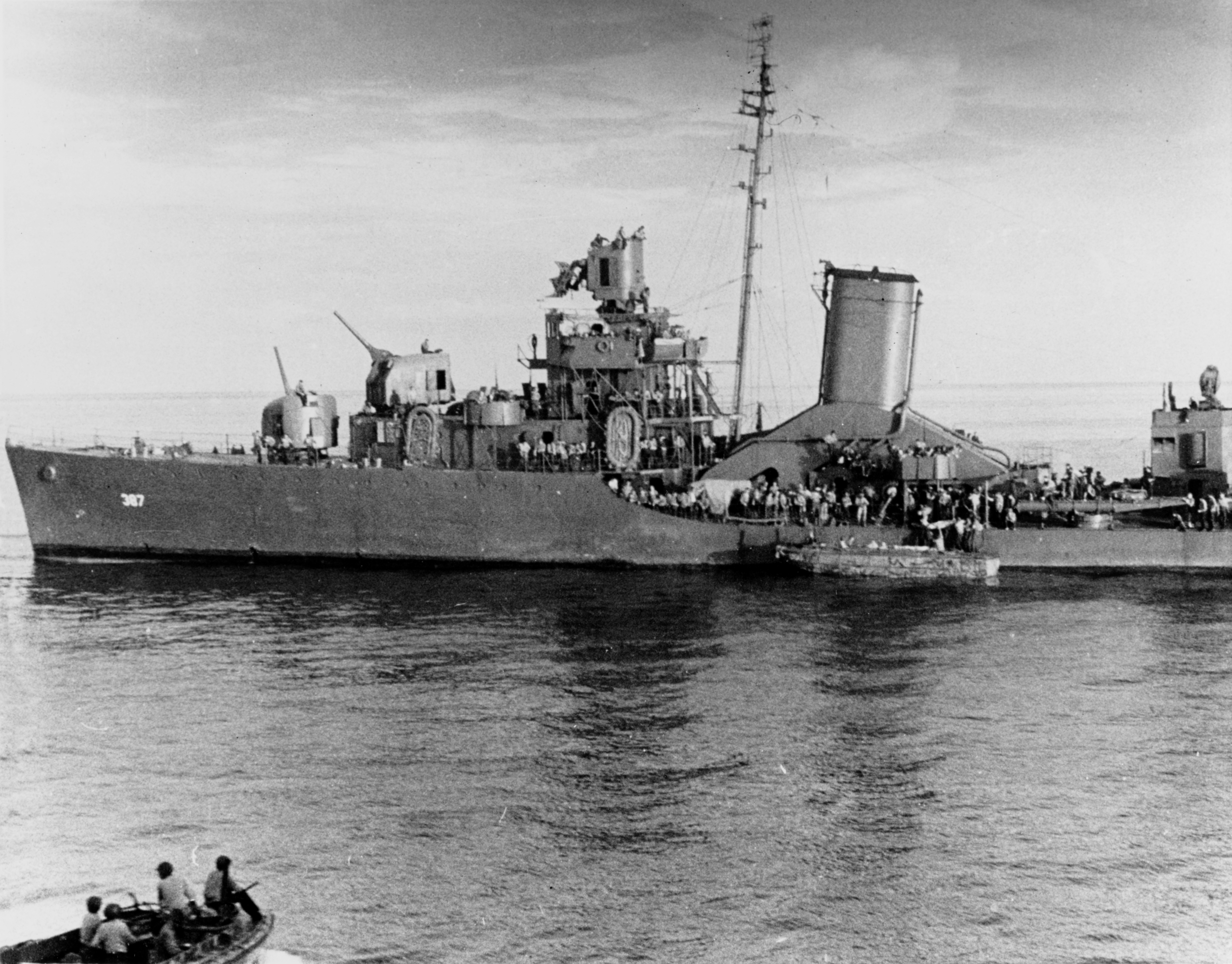 "Men wounded in the Battle of Tulagi Island being removed from the USS Blue (DD-387) to the USS Neville (AP-16), 7-8-9 August 1942." (quoted from the original caption). This photograph was probably taken on 9 August, as Blue was transferring survivors of the Battle of Savo Island, which had taken place during the previous night.